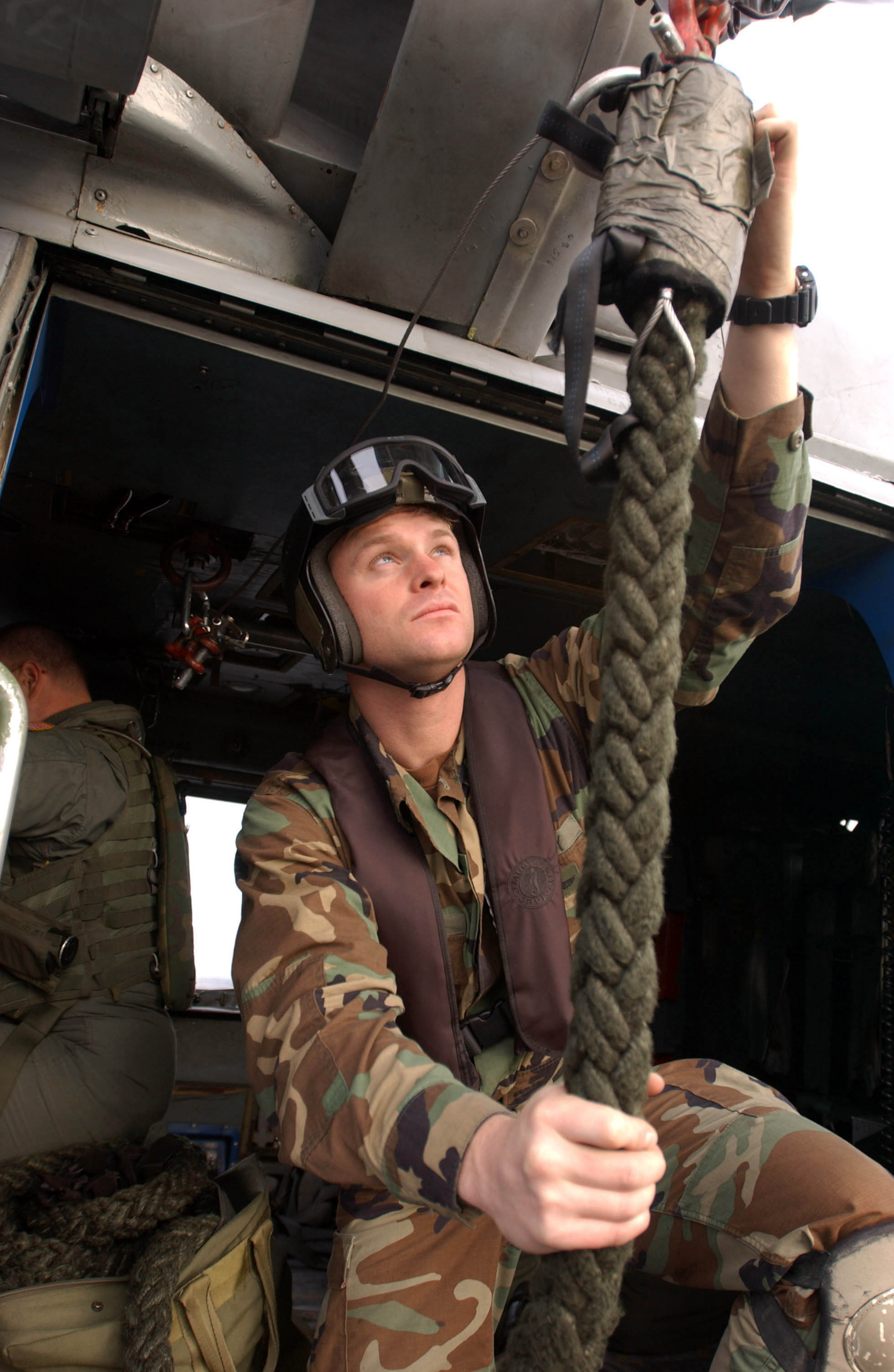 Pacific Ocean (Dec. 7, 2004) - Intelligence Specialist 1st Class Chad Munroe of Eugene, Ore., assigned to Explosive Ordnance Mobile Unit Eleven (EODMU-11), Detachment Five, ensures the fast rope is secured to the hoist mechanism prior to fast roping from the aircraft carrier USS Nimitz (CVN 68). Fast roping is used by military Special Forces teams for insertion and extraction operations. Nimitz is currently conducting Composite Training Unit Exercise off the coast of southern California. U.S. Navy photo by Photographer’s Mate Airman Shannon E. Renfroe (RELEASED)